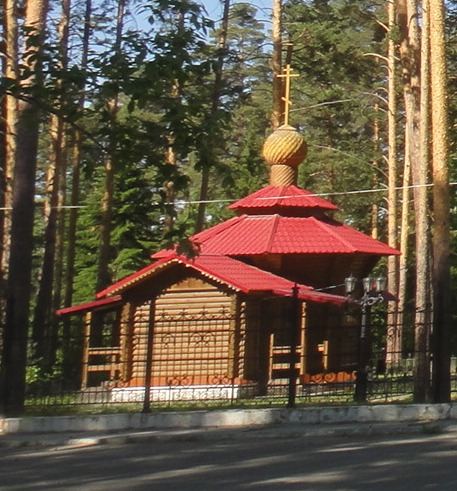 часовня Державной иконы Божией Матери